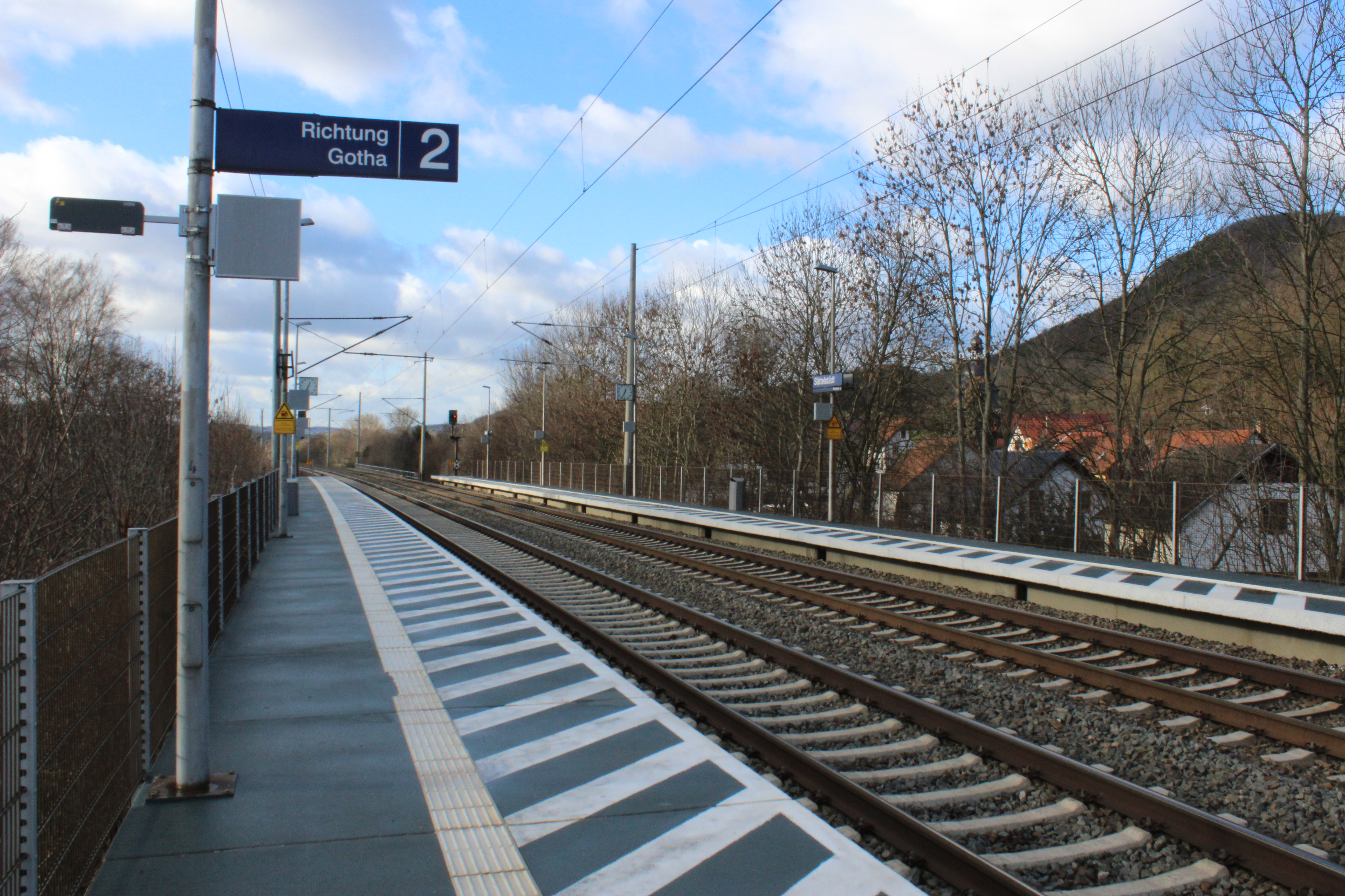 train station Sattelstädt